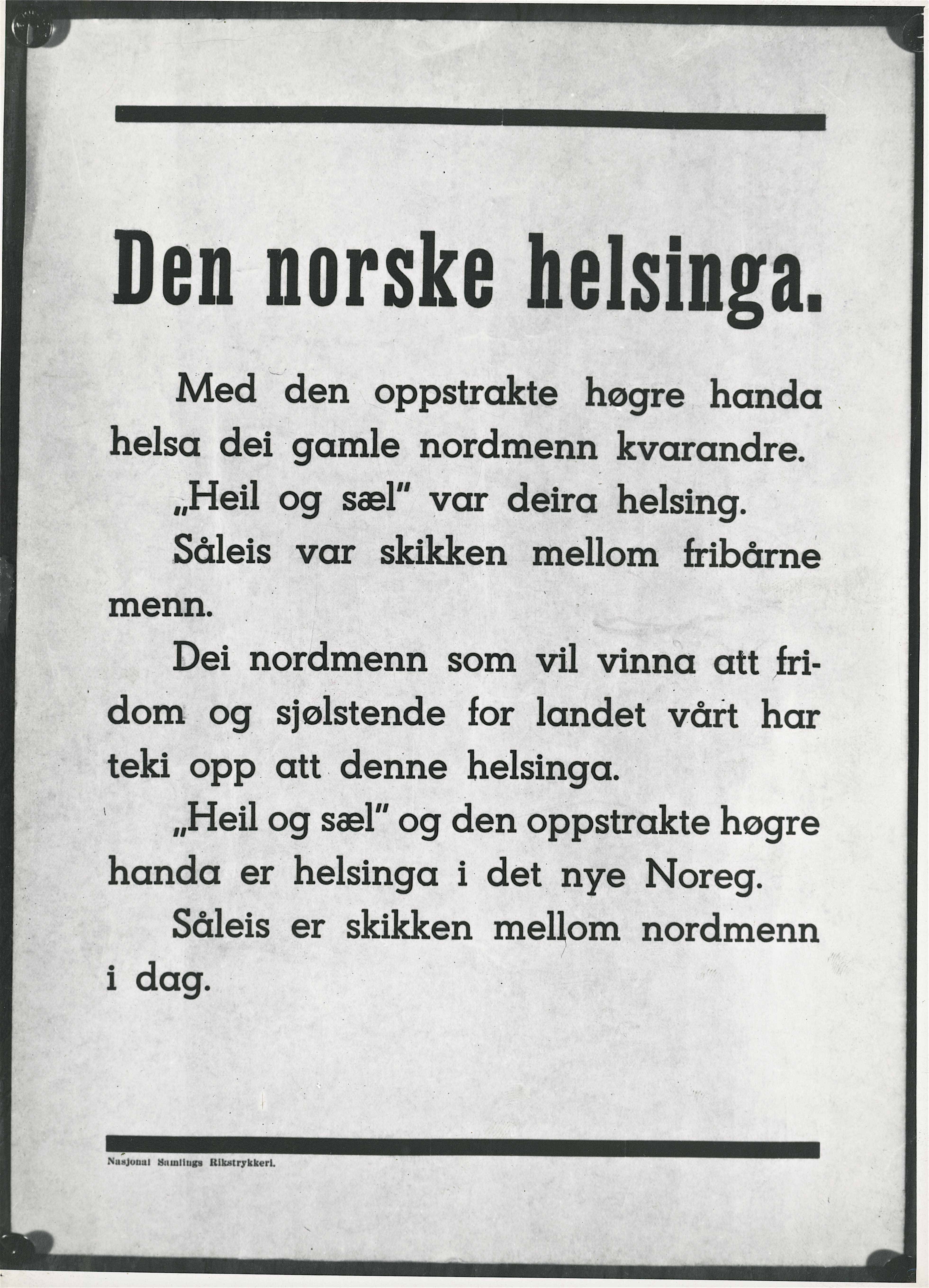 Norwegian poster with information on Nasjonal Samling's "new Norwegian greeting" with nazi salute and the words: "Heil og sæl!"